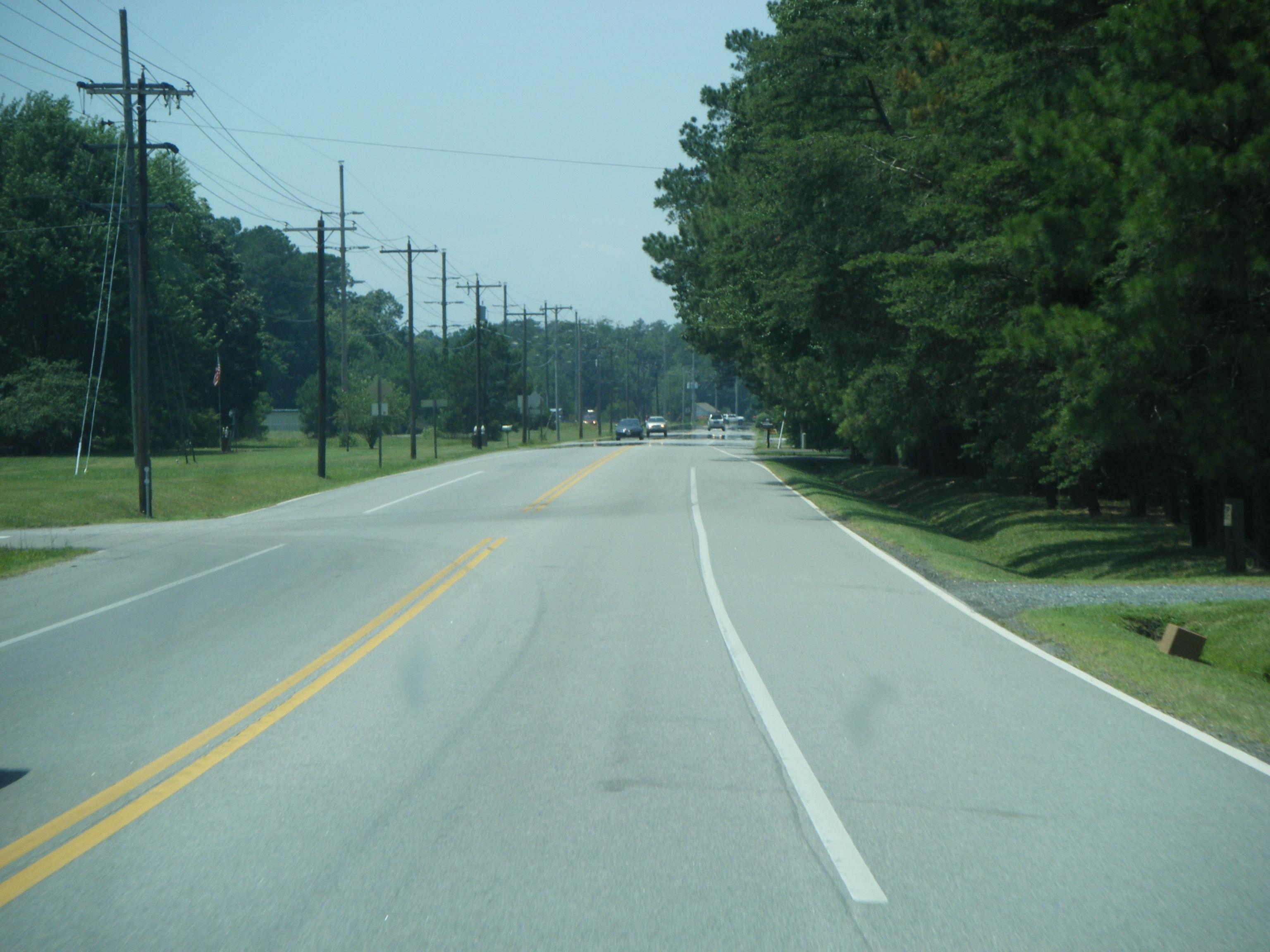 Westbound Maryland Route 33 past the bridge over Oak Creek in Newcomb, Maryland